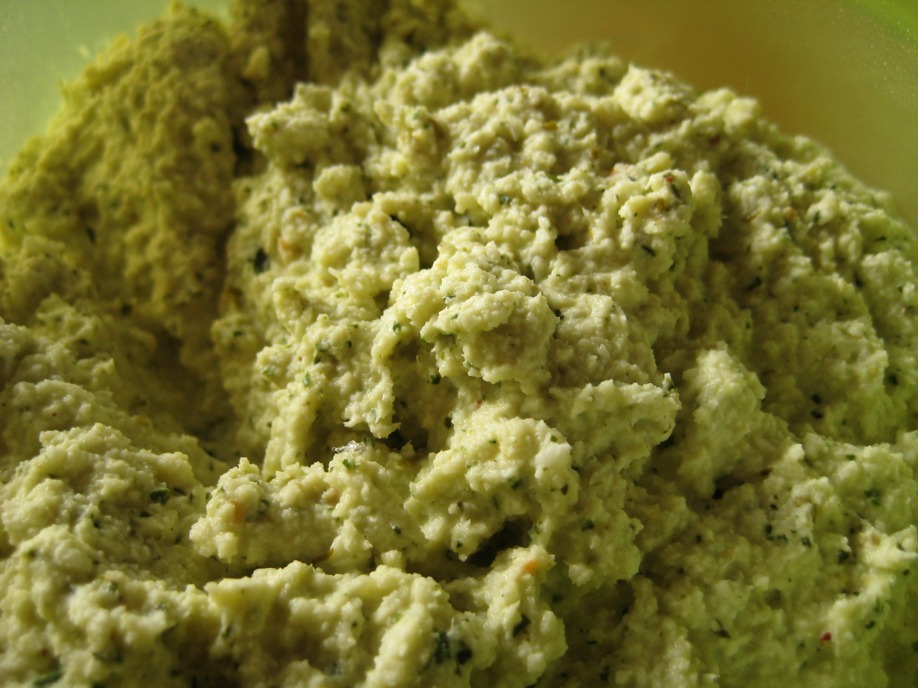 Coconut mint chammandi is a side dish, a coalesce of Lemon juice (or Curd/ (Yogurt)), Mint leaves, Coriander leaves, Ginger, Green chilies, Garlic, Curry leaves